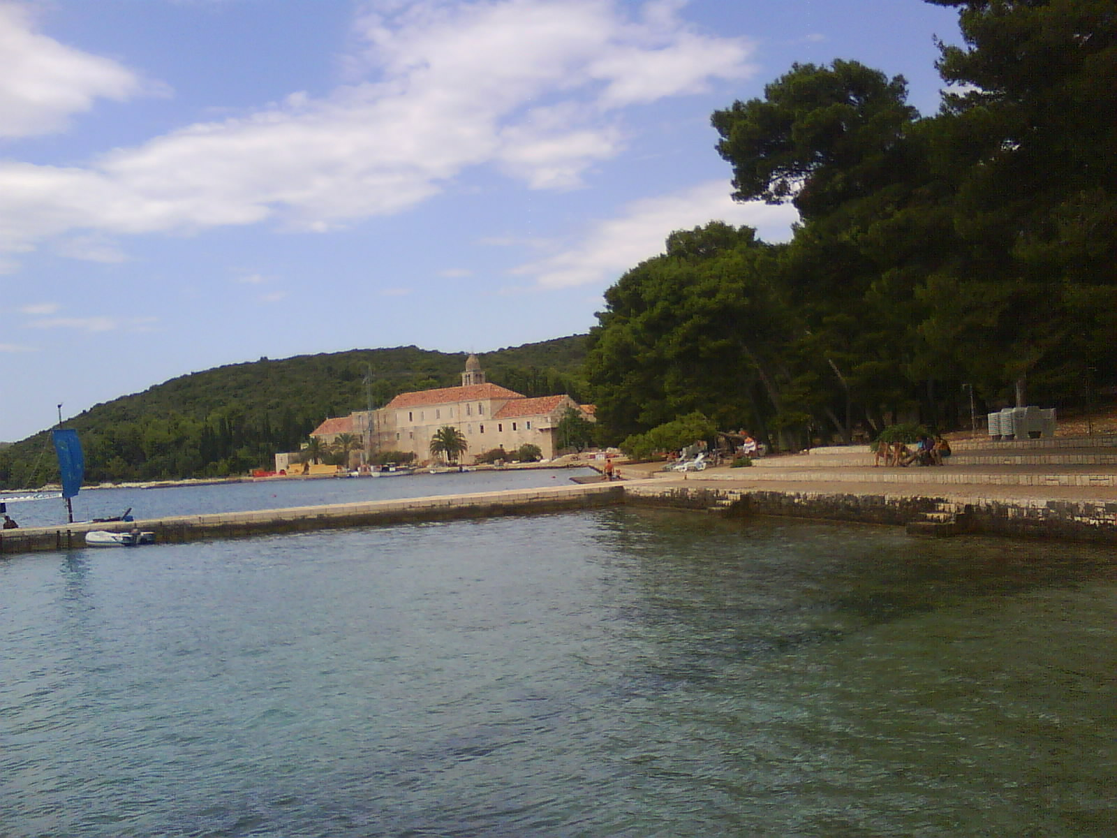 Franciscan monastery on island of Badija